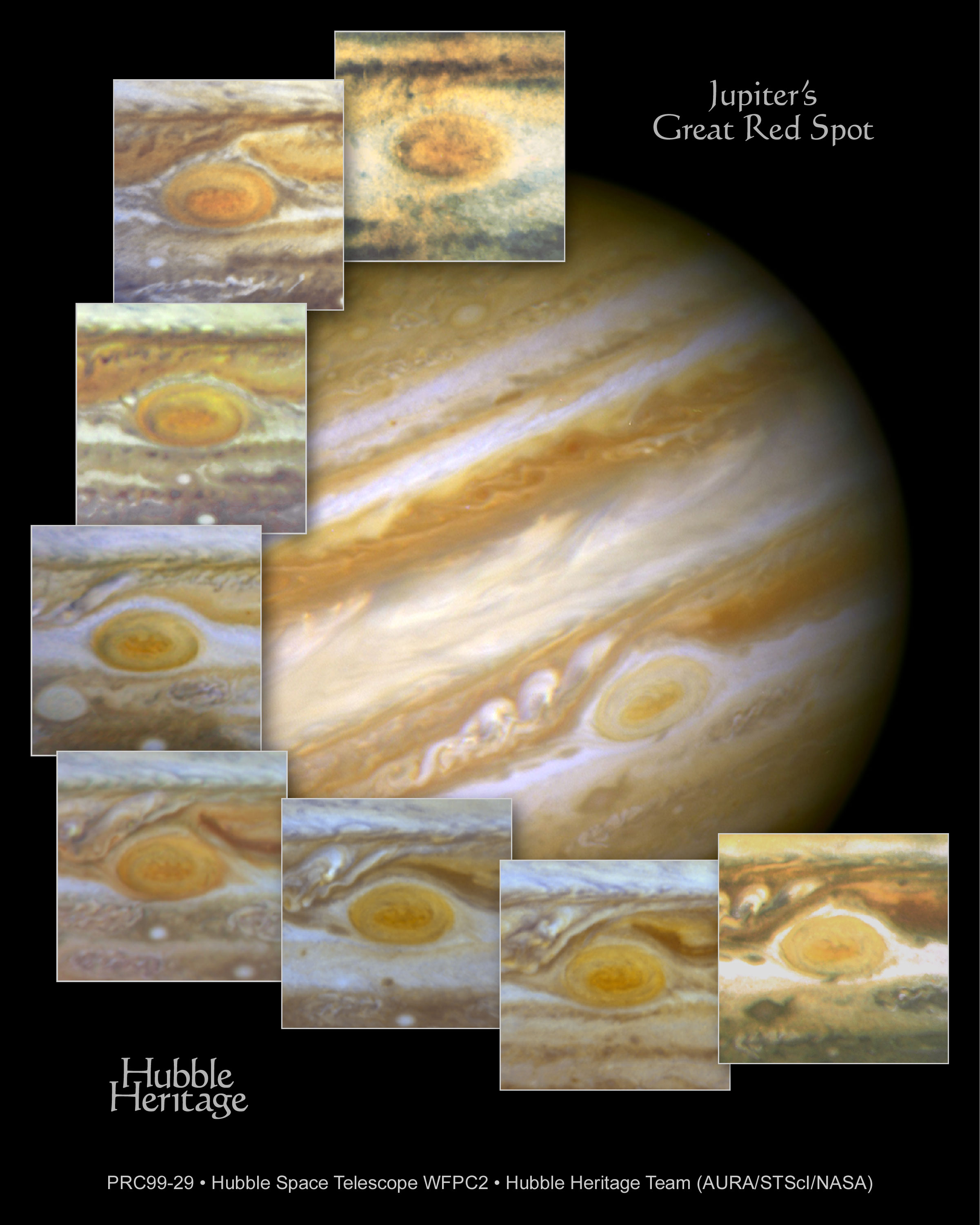 The evolution of Great Red Spot from images taken by some NASA probes